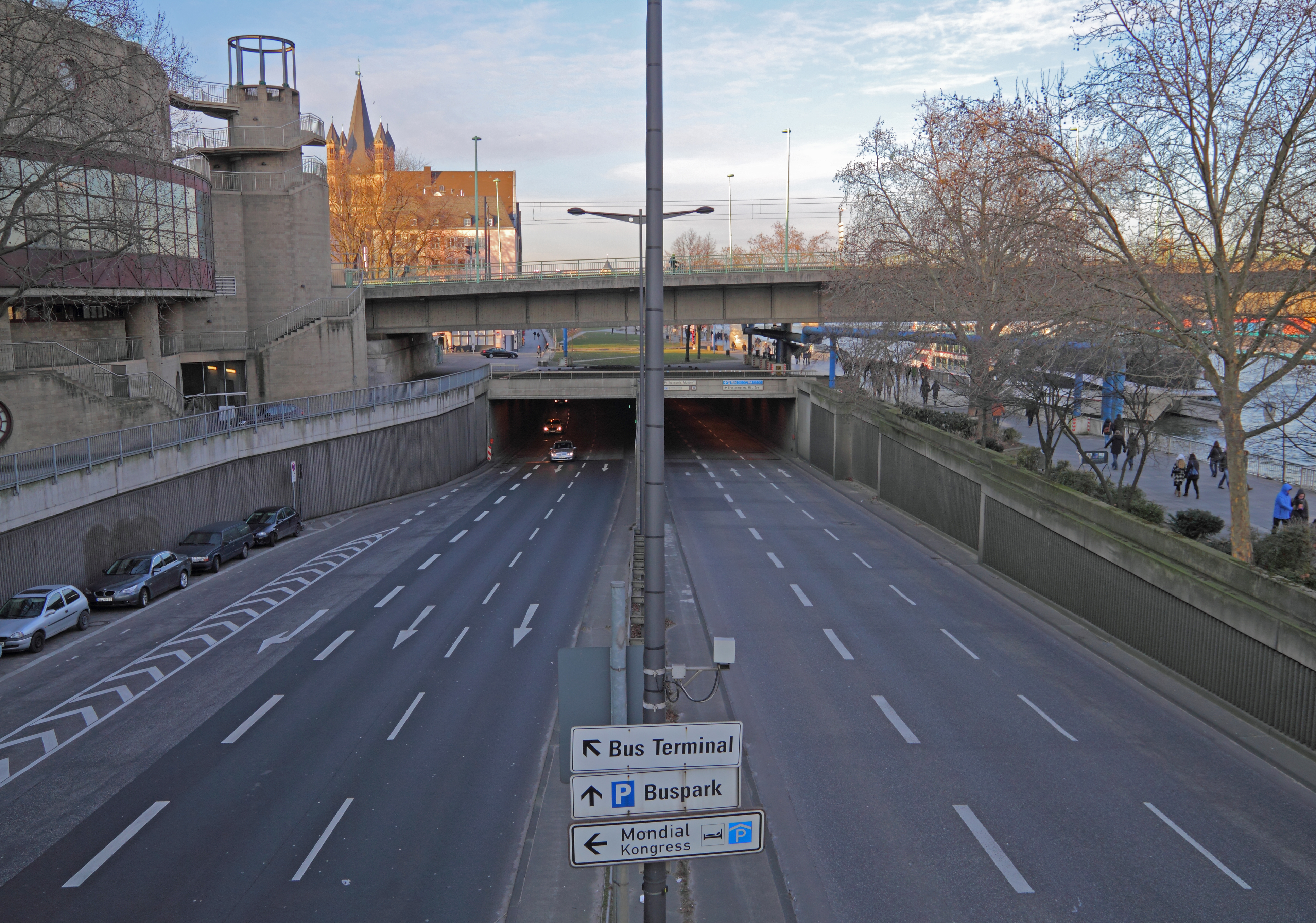 The southern ramp of the Rhine bank tunnel in Cologne